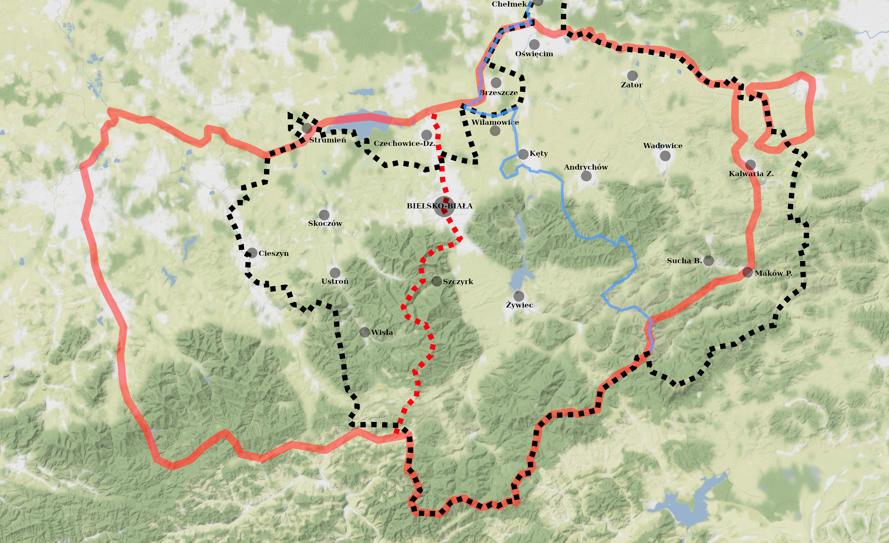 Compare to my previous map: File:TeschenAuschwitzUnderMieszkoI.png. I added borders of the Voivodeship of Bielsko-Biała (black dotted line) before 1998 and the new border between V-s Silesia and Lesser Poland (blue line)